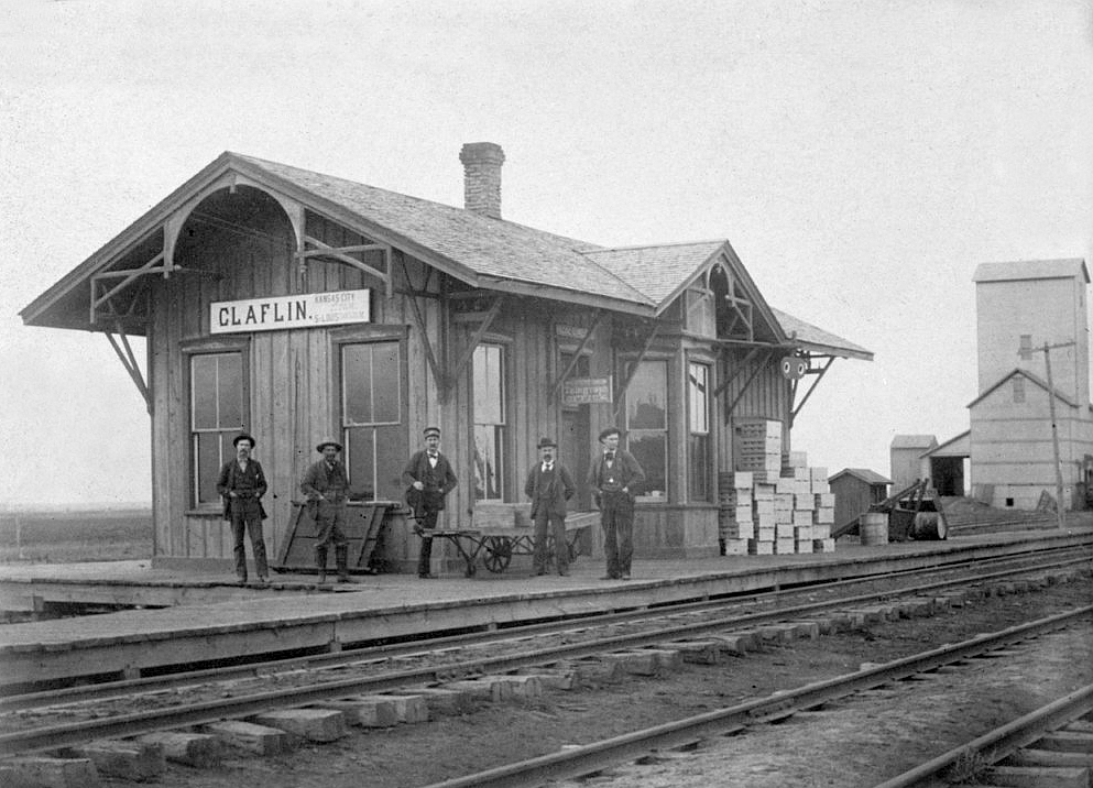 Missouri Pacific Railroad depot in Claflin, Kansas. The structure no longer stands.